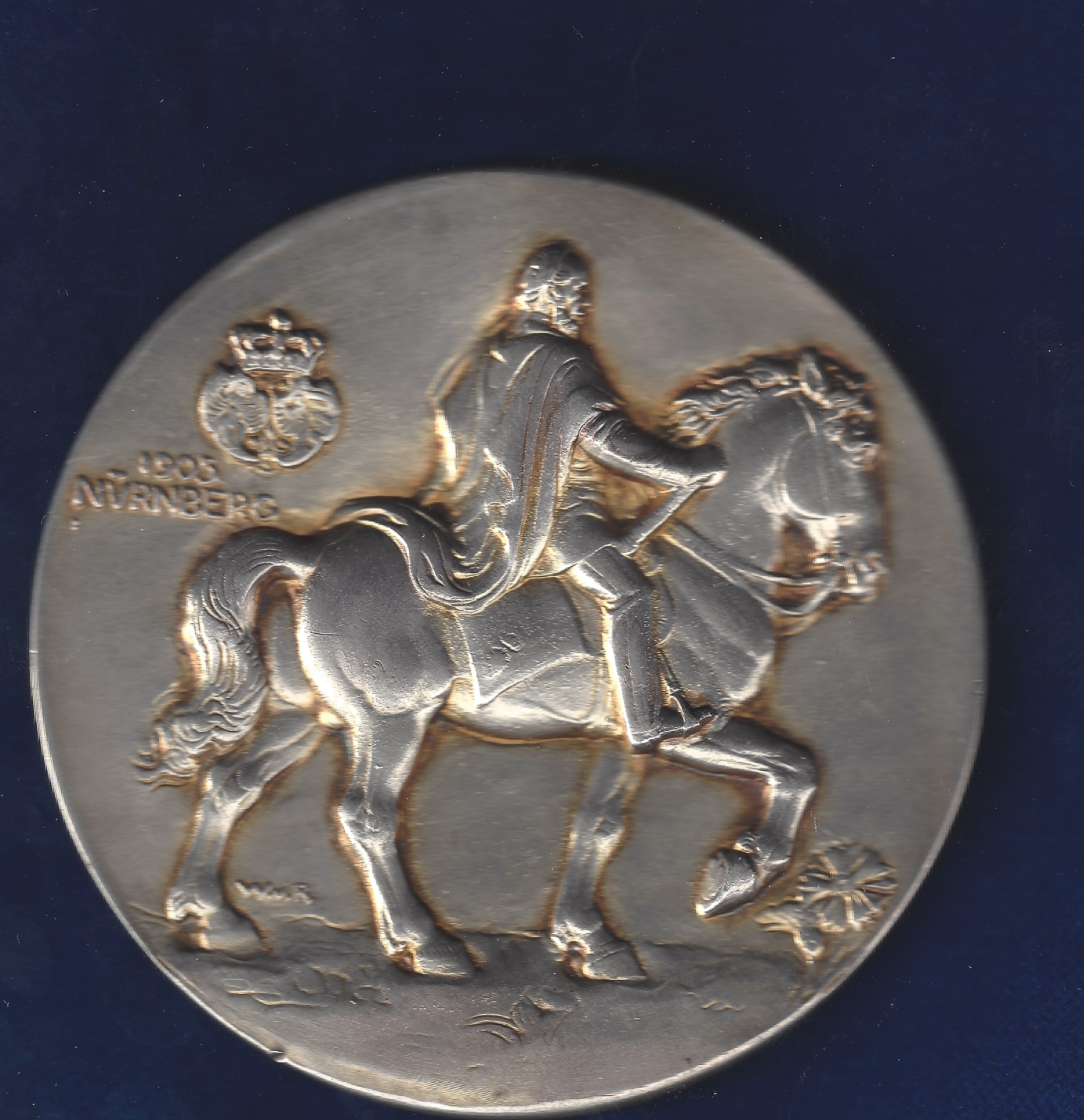 Medallion d. = 81 mm. 184.78 g Ag 0.990 lightly gilt Fine Silver. This large medal was given by the city of Nürnberg to the Royalties attending the ceremony of the unveiling of the monument in honour of Kaiser Wilhelm I on 14 December 1905 in Nuremberg. It is very rare in this size. Wilhelm I, German Emperor, 1871 - 1888 Laureate bust r., around: "WILHELM- I. DEVTSCHER- KAISER."/ The monument: Wilhelm I on horseback r., 2 lines at l.: "1905 NÜRNBERG". At l. above the arms of Nuremberg. LL Ball 28 (1935), No 32579; Erlanger 664. Medallist: W. v. R. (Wilhelm von Ruemann), 1850 Hanover - 1906 Ajaccio, Corsica Condition : EXTREMELY FINE+, a tiny edge nick at 7 o'clock on the reverse.